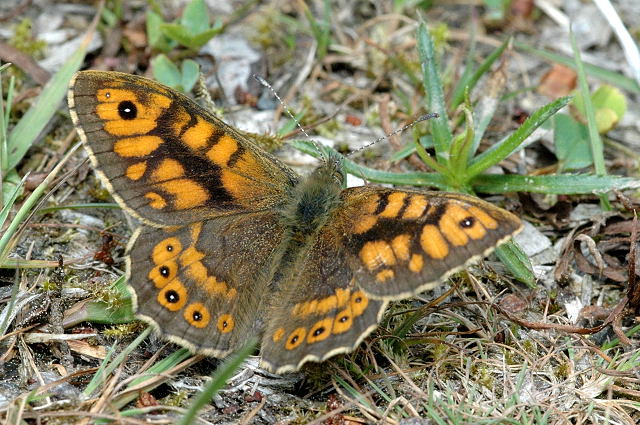 Picture taken in Commanster, Belgian High Ardennes . Species: Lasiommata megera male